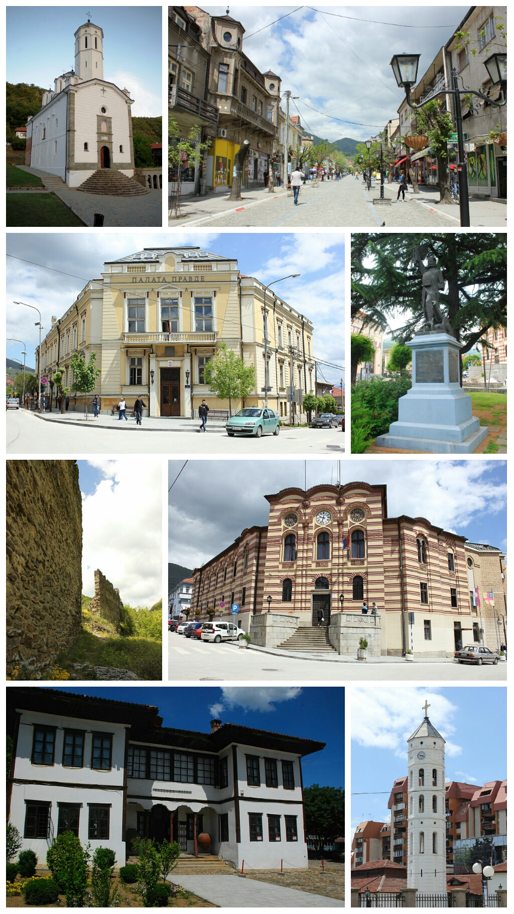 Vranje- photomontage (The Monastery of Venerable Prohor of Pčinja, Main pedestrian zone, Palace of Justice, Monument to the liberators of Vranje, Markovo Kale fortress, Town Hall, National Museum in Vranje, Belfry of the Cathedral Church)